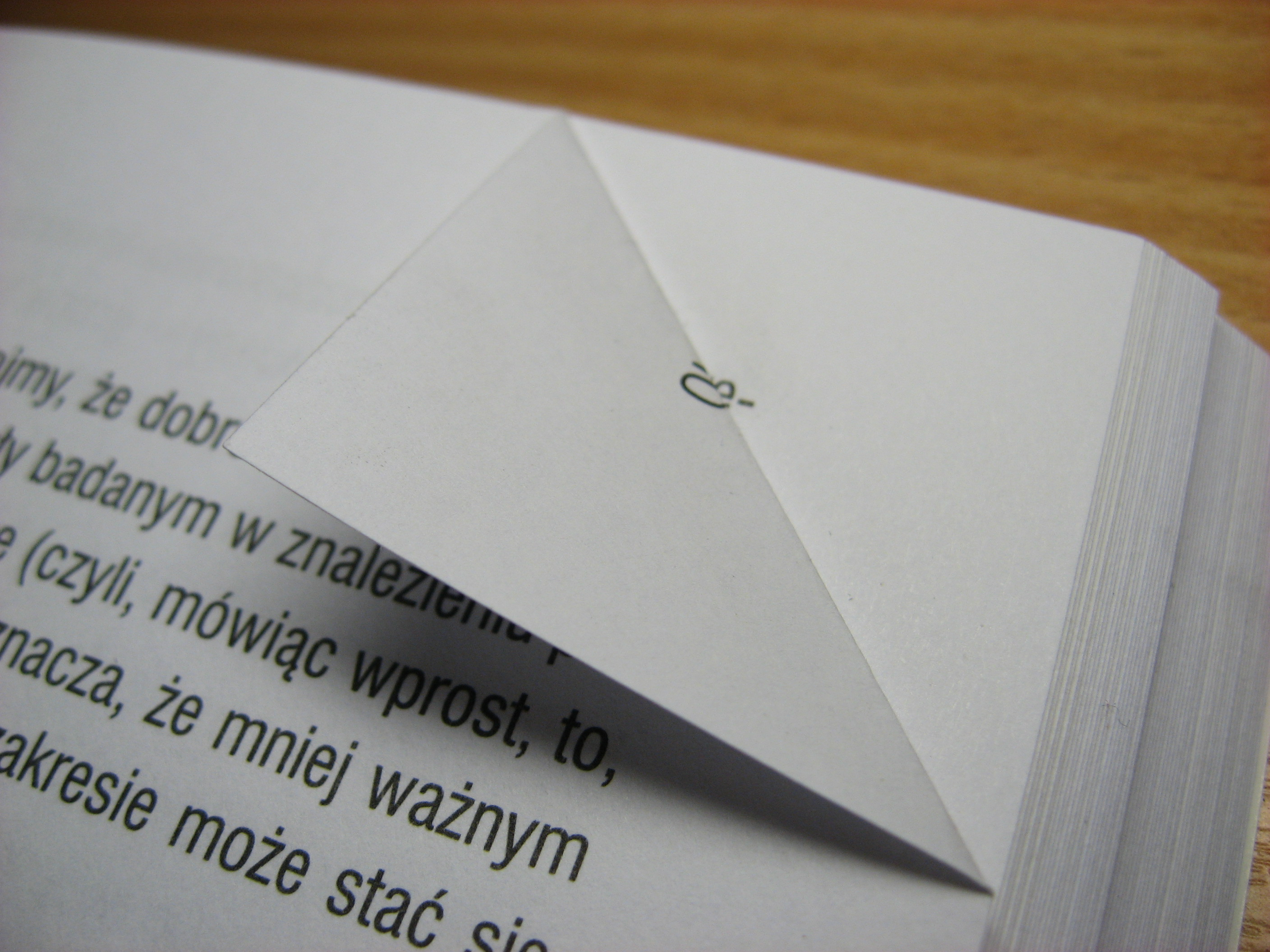 dog-ear in a book